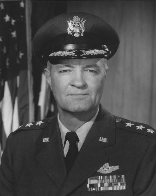 Howell M. Estes II